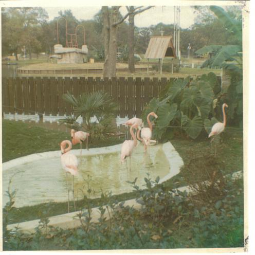 I took photo myself with Kodak camera.